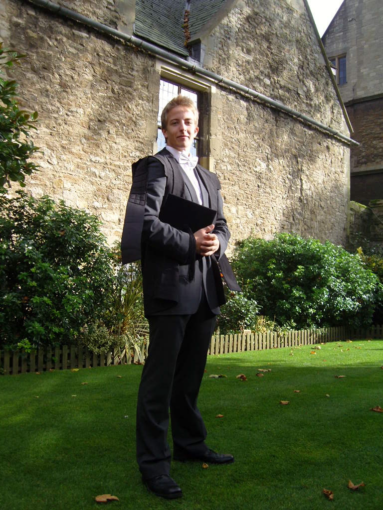 A picture of Toby Virno in Sub Fusc at Lincoln College, University of Oxford